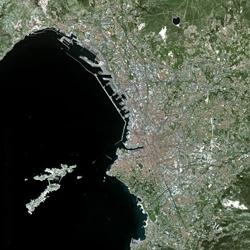 Marseille by SPOT Satellite